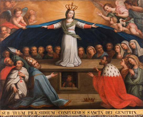 Processional banner of the Lisbon Holy House of Mercy (painted by Bernardo Pereira Pegado, 1784), depicting Our Lady of Mercy. This banner was used in processions in which the Holy House of Mercy would take part.